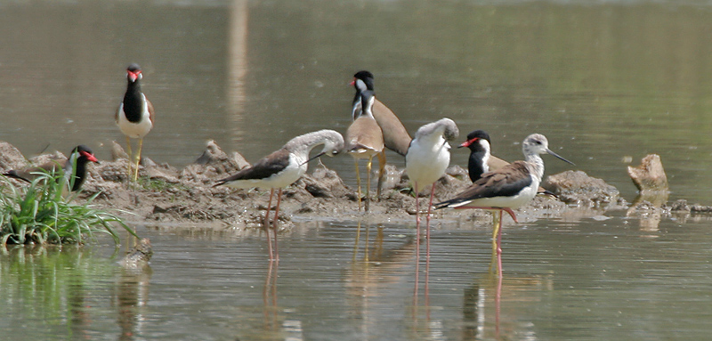 Black-winged Stilt Himantopus himantopus at Keoladeo National Park, Bharatpur, Rajasthan, India.